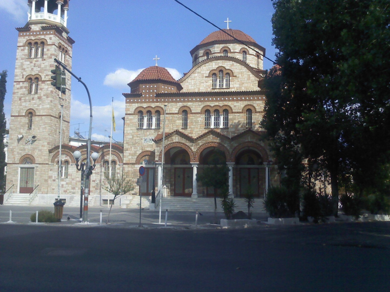 Agioi Anargiroi Palia Kokkinia